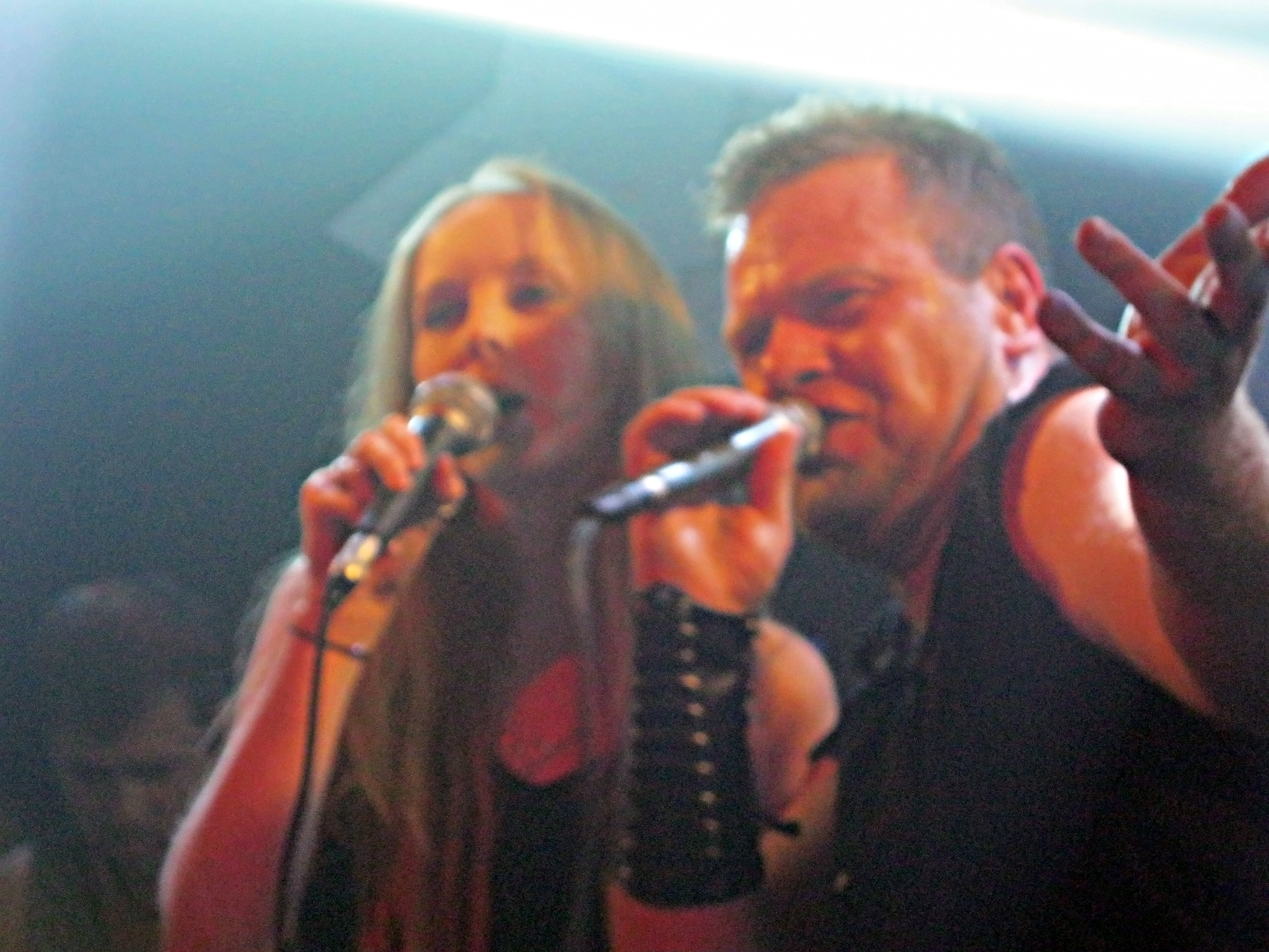 A vocalist of Israely band "Desert" with Israely singer Infy Snow, in club "Gagarin" 4/6/15